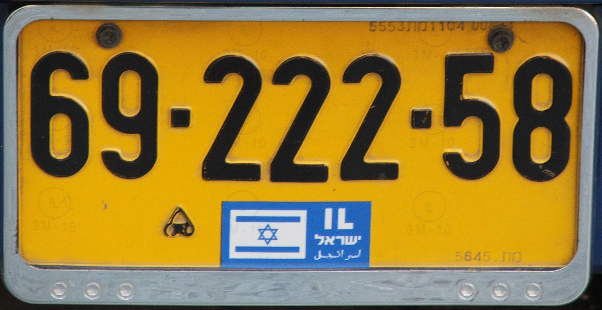 Vehicle licence plate from Israel as seen in 2008.